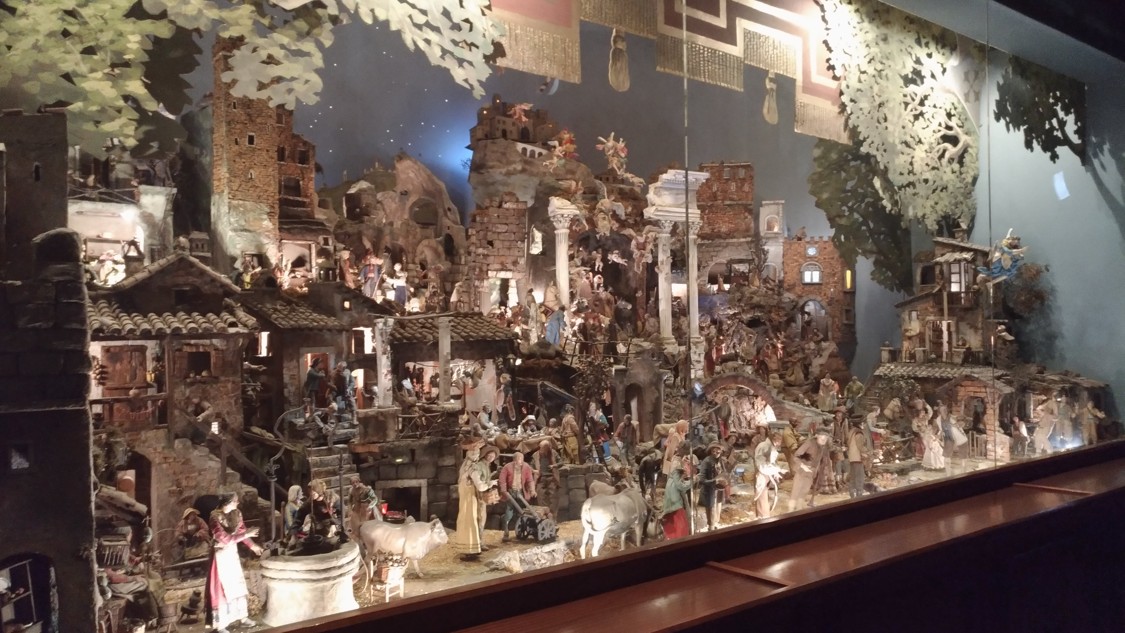 Nativity scene in Santi Cosma e Damiano, Rome